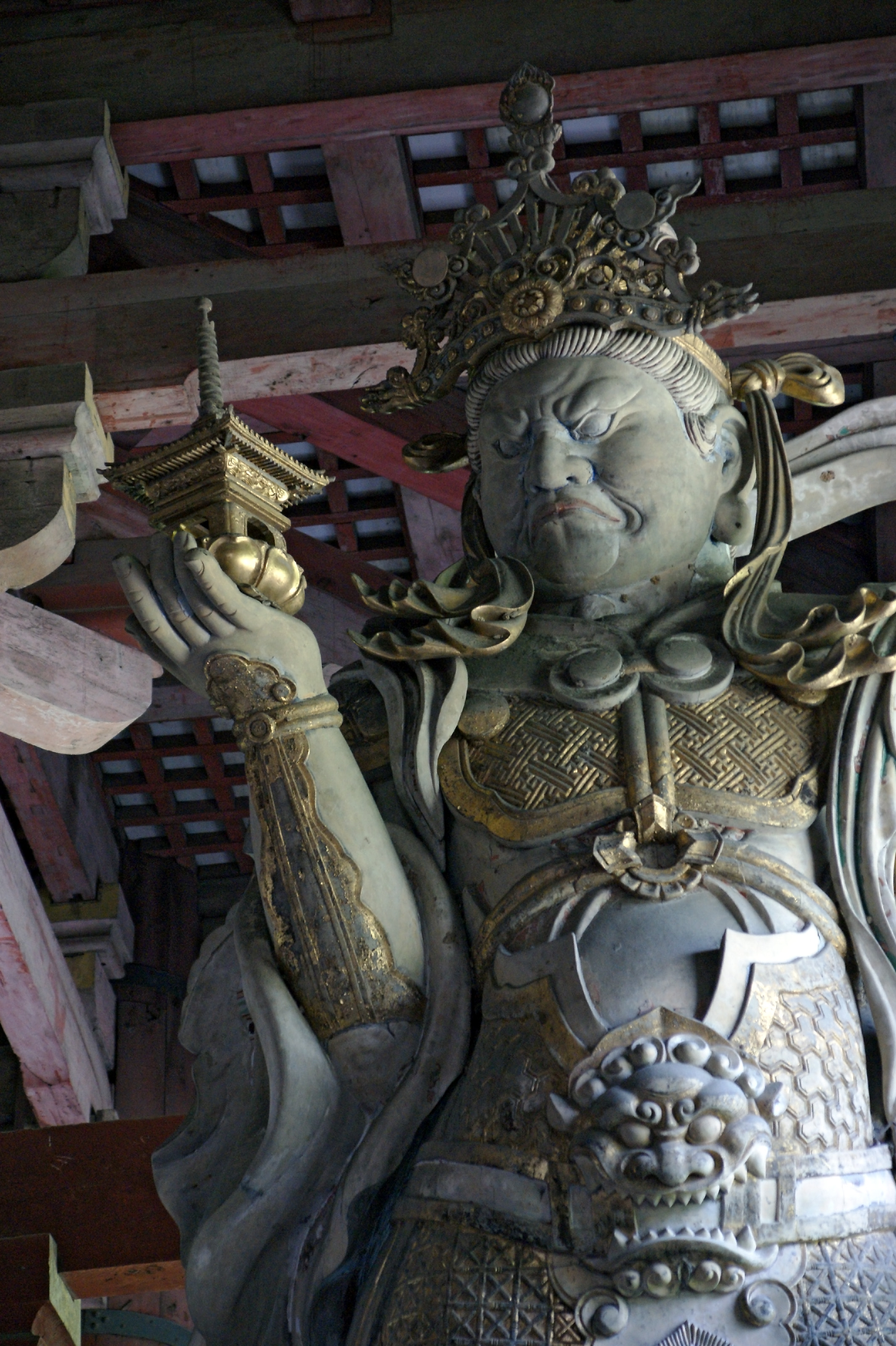 Todaiji in Nara, Nara prefecture, Japan